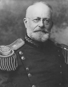 Brigadier General William Herbert Bixby, Chief of Engineers June 12, 1910–August 11, 1913.